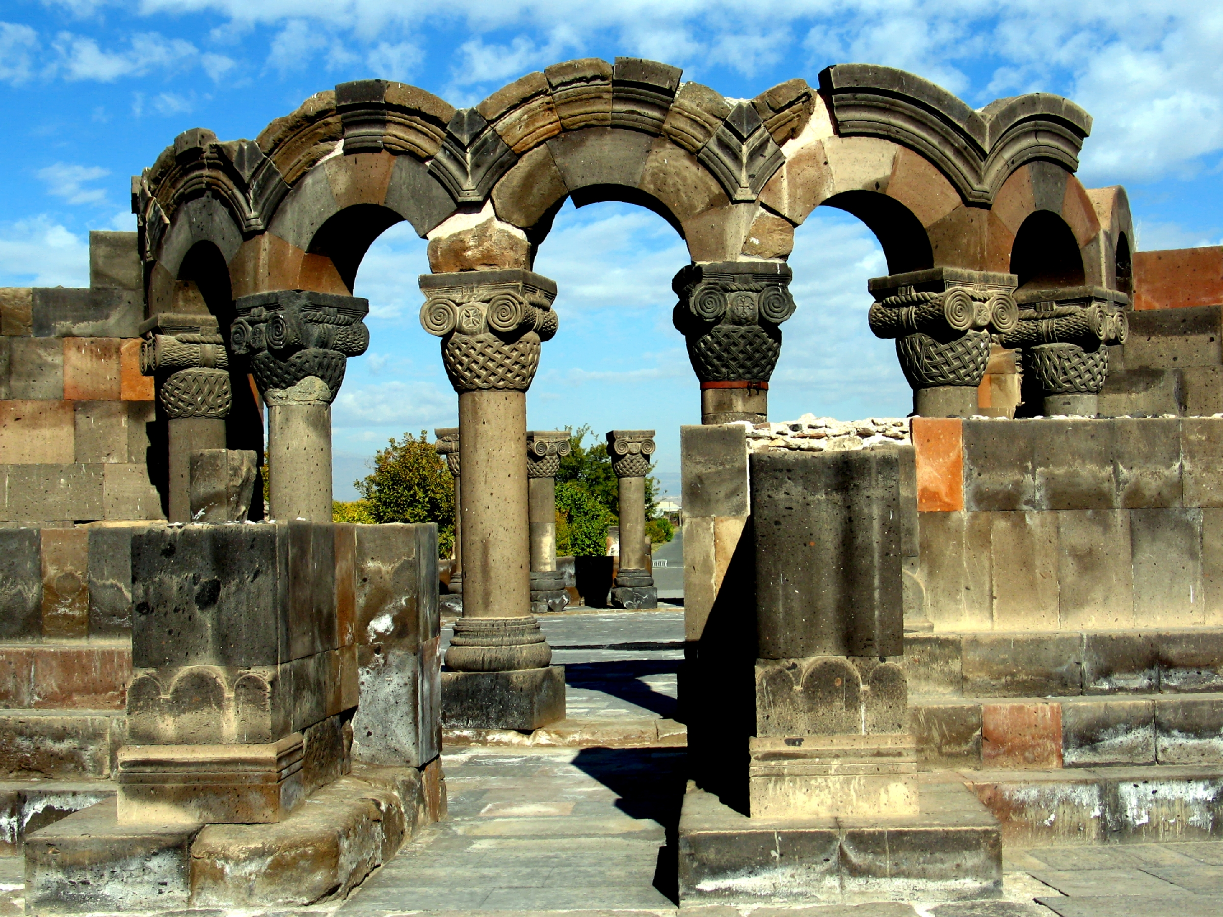 ԵԿԵՂԵՑԱԿԱՆ ՀԱՄԱԼԻՐ՝ ՎԱՂԱՐՇԱՊԱՏԻ Ս. ԳՐԻԳՈՐ (ԶՎԱՐԹՆՈՑ) 2/13